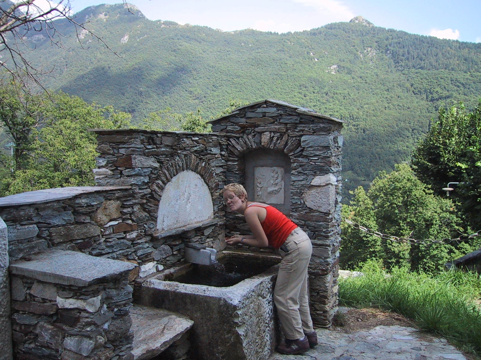 mountain water